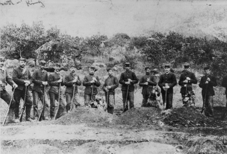 Firing Squad Company F of the National Guard of Hawaii, Kalalau Valley, Kauai. At grave of three members killed during hunt for Kaluaikoolau.